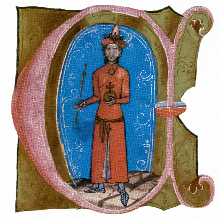 Ladislaus IV of Hungary